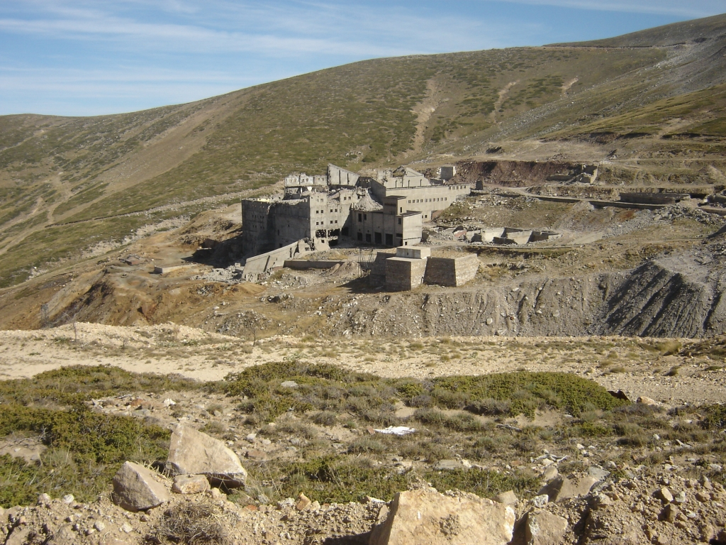 Abandoned wolfram mine near the summit of Uludag, Bursa, Turkey.